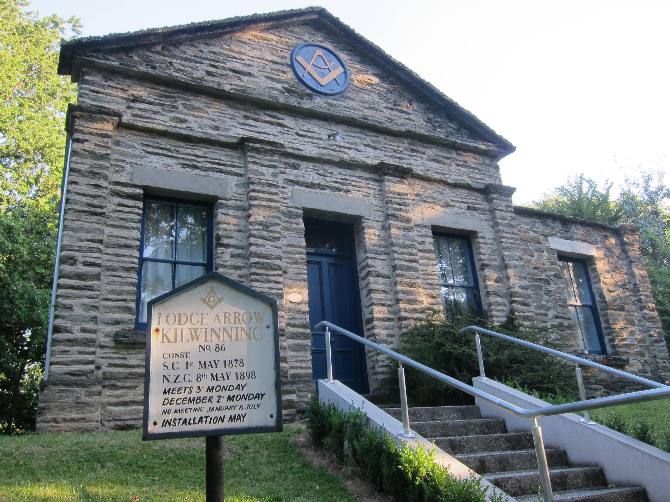 Arrow Kilwinning Lodge